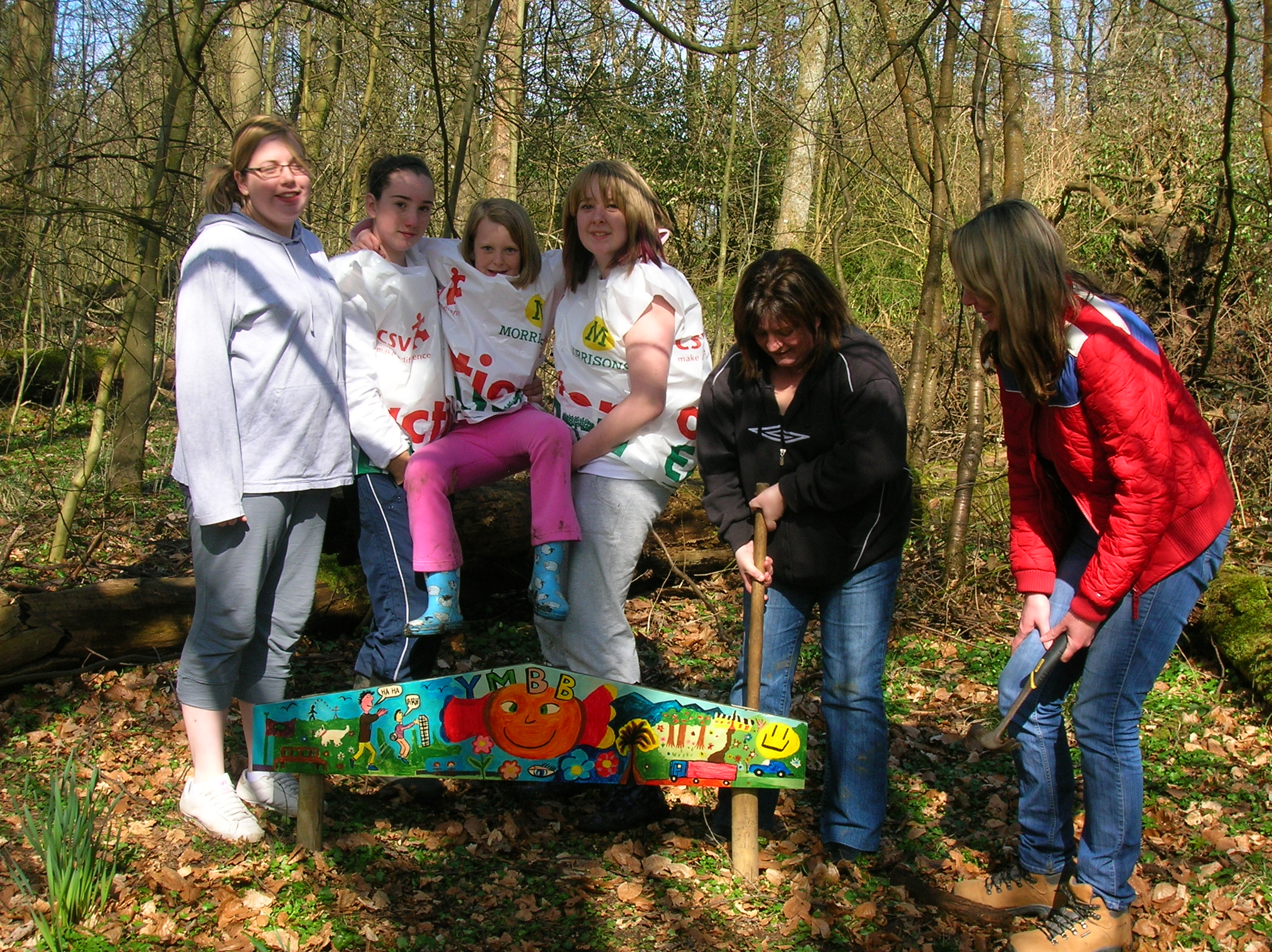 Youth Making Beith Better Group at Spier's Parkland, Beith, North Ayrshire, Scotland.